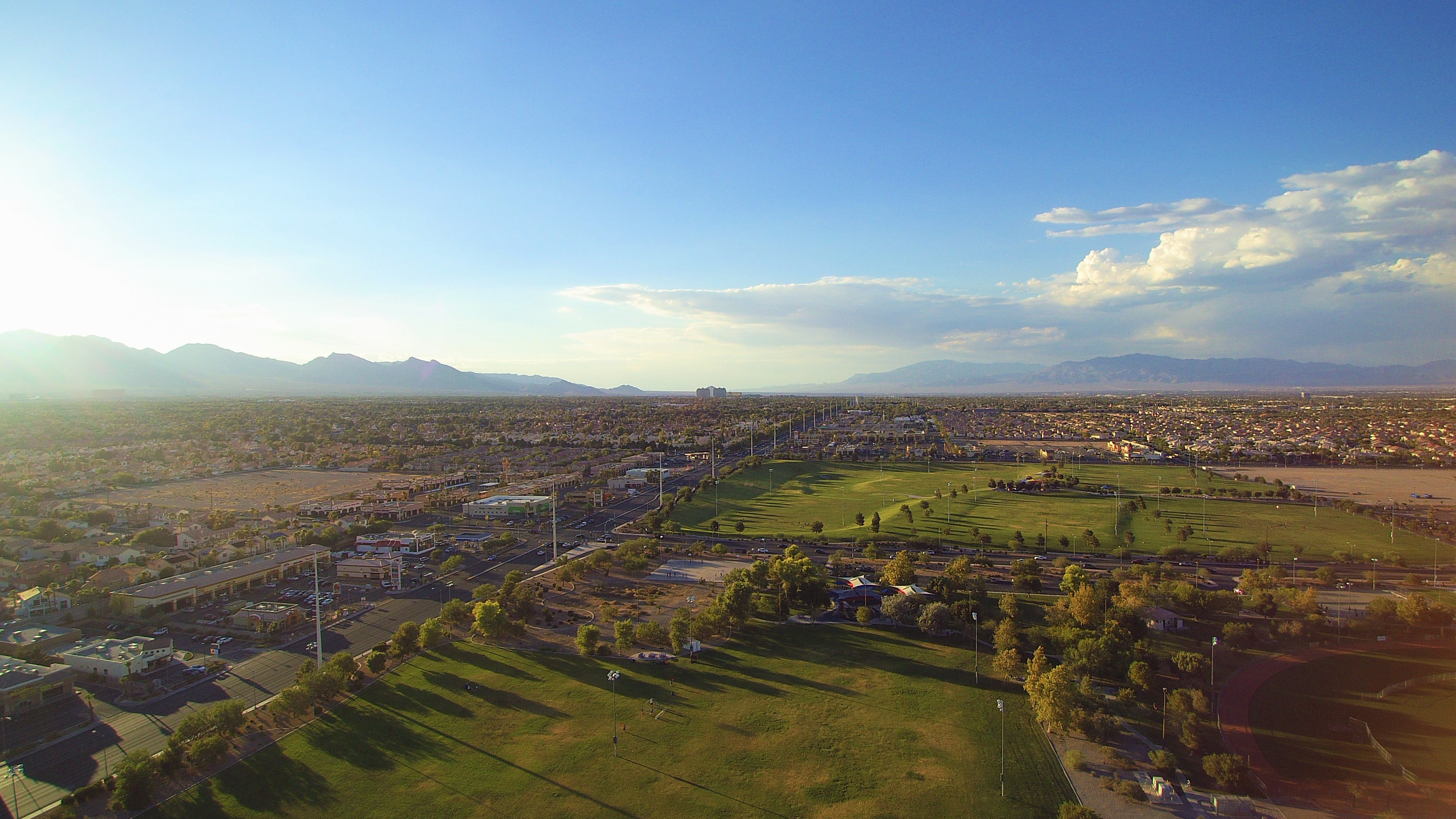 400 feet up above the park in Las Vegas